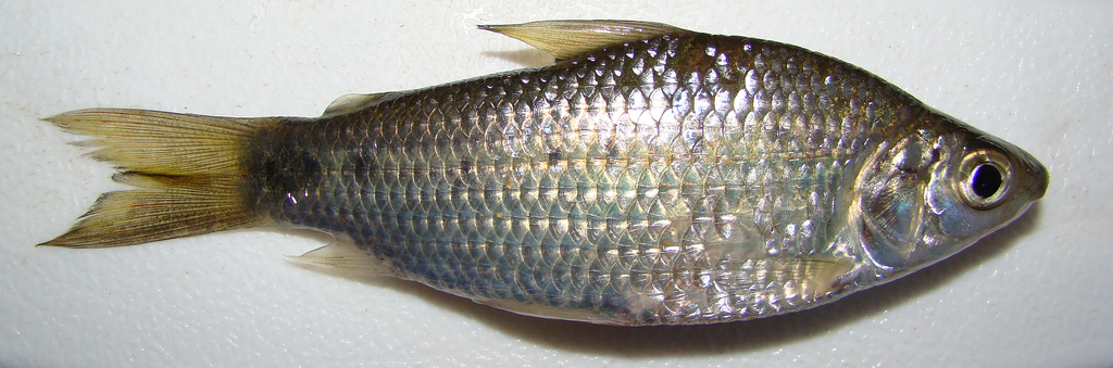 Cyphocharax voga from a dam in Rio Grande do Sul, Brazil, photographed on December 2008.